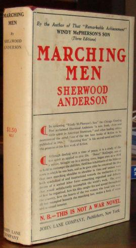 First edition cover (w/ book jacket) of Sherwood Anderson's novel, Marching Men.